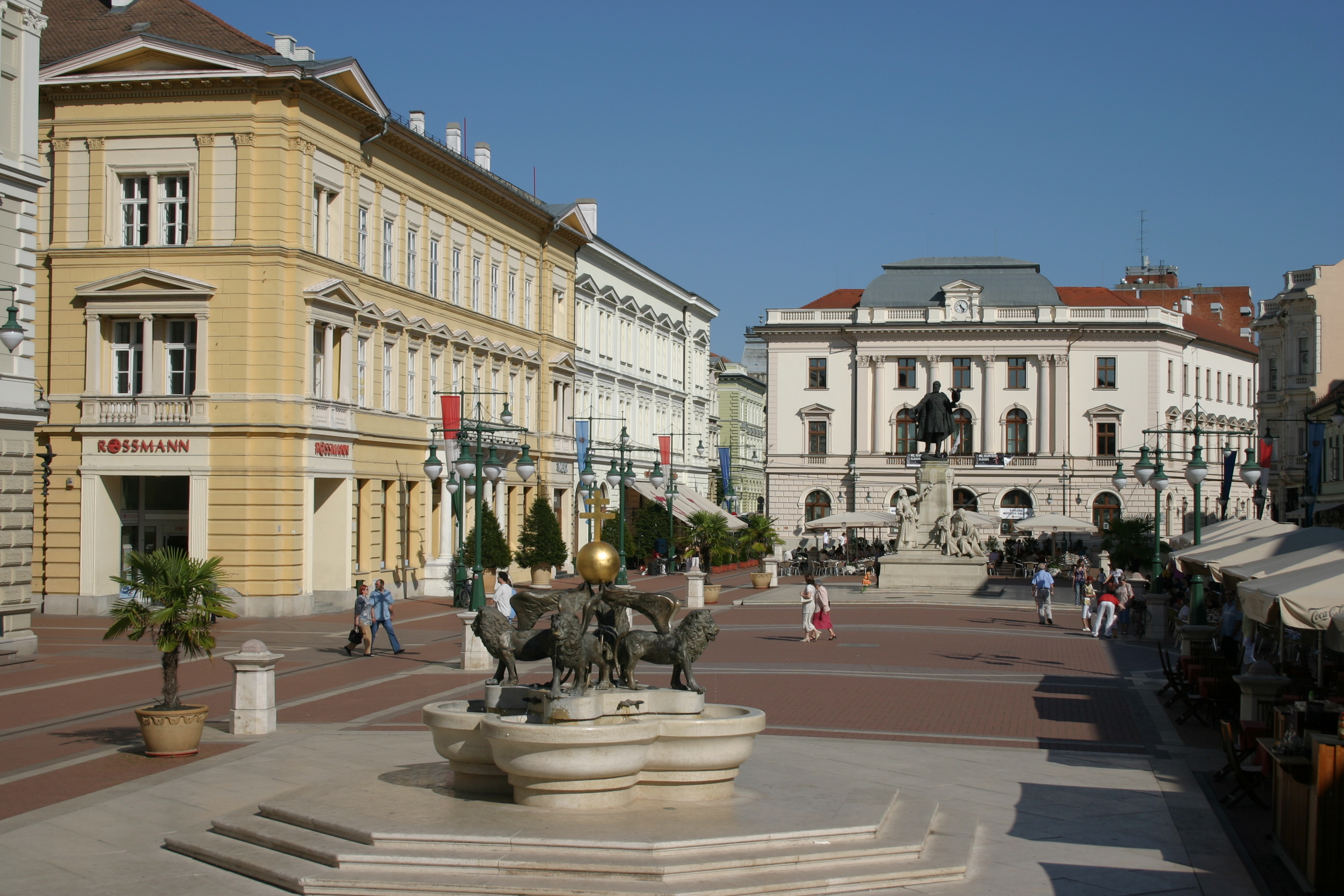 Szeged, Klauzál Square. In background: statue of Lajos Kossuth (sculptor: József Róna, 1902)